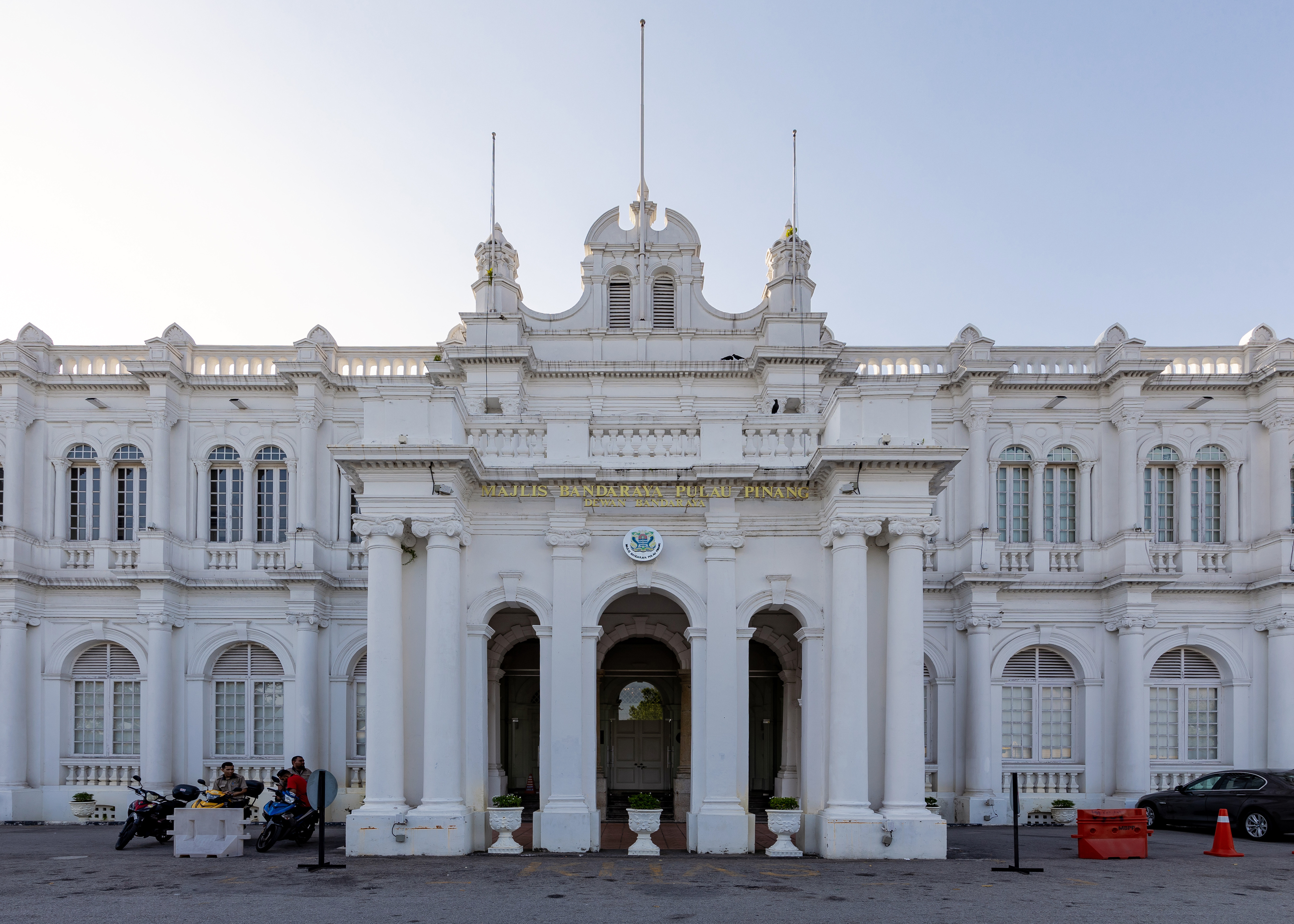 The City Hall is the local government headquarters in the city of George Town in Penang, Malaysia. Built by the British, it now serves as the seat of the Penang Island City Council and was previously the seat of the George Town City Council.